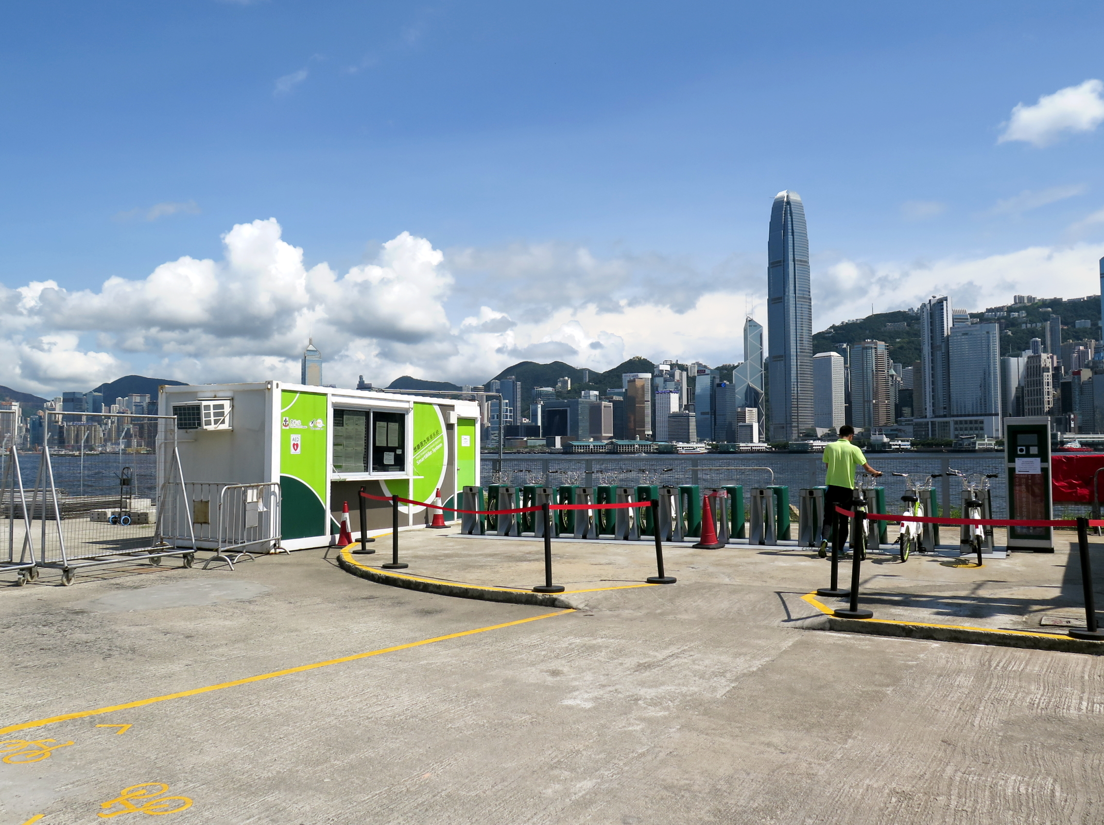 West Kowloon Waterfront Promenade Bicycle Rent Service